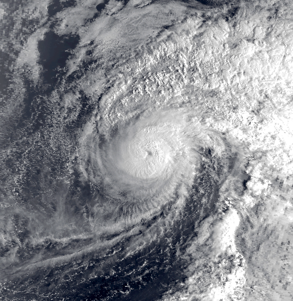 Typhoon Freda on March 15, 1981